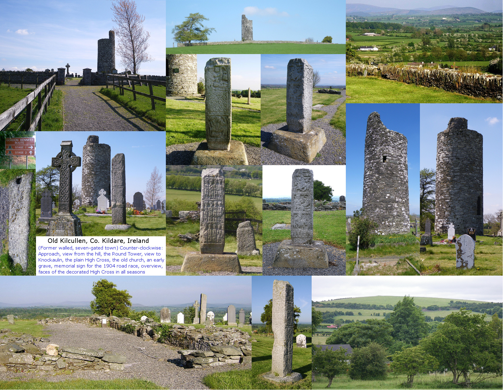 Old Kilcullen, Co. Kildare, Ireland: a postcard of this historical site, with images of the site from the official entrance and from the side, a view from there to the Dublin / Wicklow Mountains, two images of the round tower, a view towards Knockaulin / Dun Ailinne, the plainer of the High Crosses, the old church, a grave, a memorial sign for a famous 1904 road race, an ensemble scene, and images of the sides of the decorated High Cross in various seasons. I made these, of this former seven-gated town, and will publish it as a postcard tomorrow, inspired by a set of postcards of Kilcullen (Bridge), a few km away, seen last year.